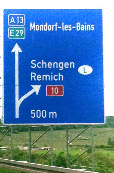 The sign shows the exit to Schengen and continuation of the Luxemburgish road A13. All the road numbers are Luxemburgish but the sign is located in Germany around 200 m from the border.